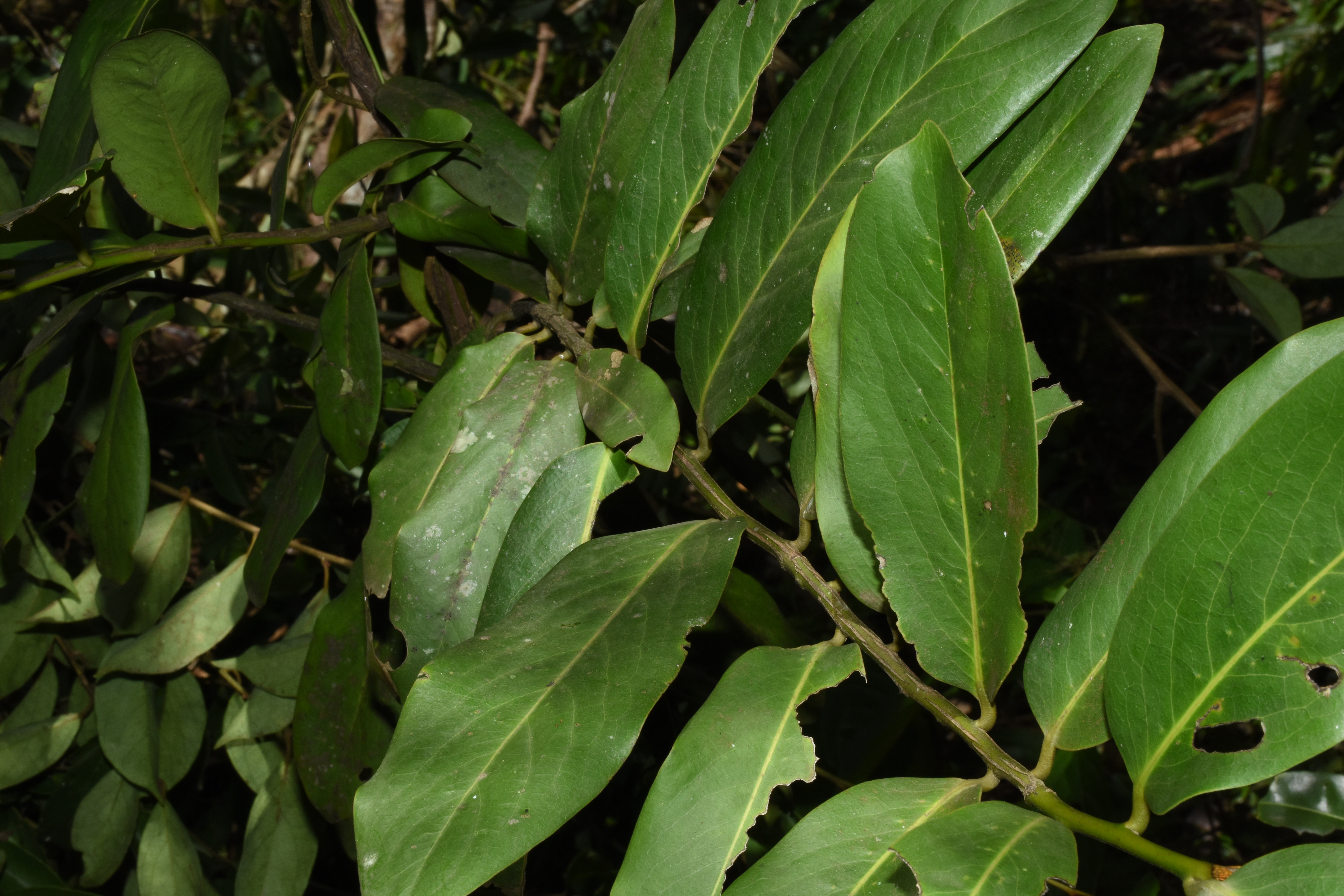 Diospyros malabarica